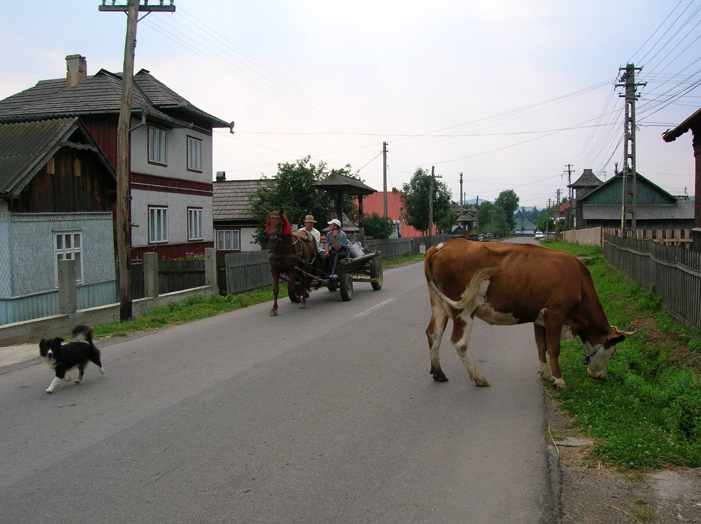 Scene of rural life in Manastirea Humorului (Bukovina, Romania): peasants on a dray with milk containers, farm dog and cow from a nearby husbandry.